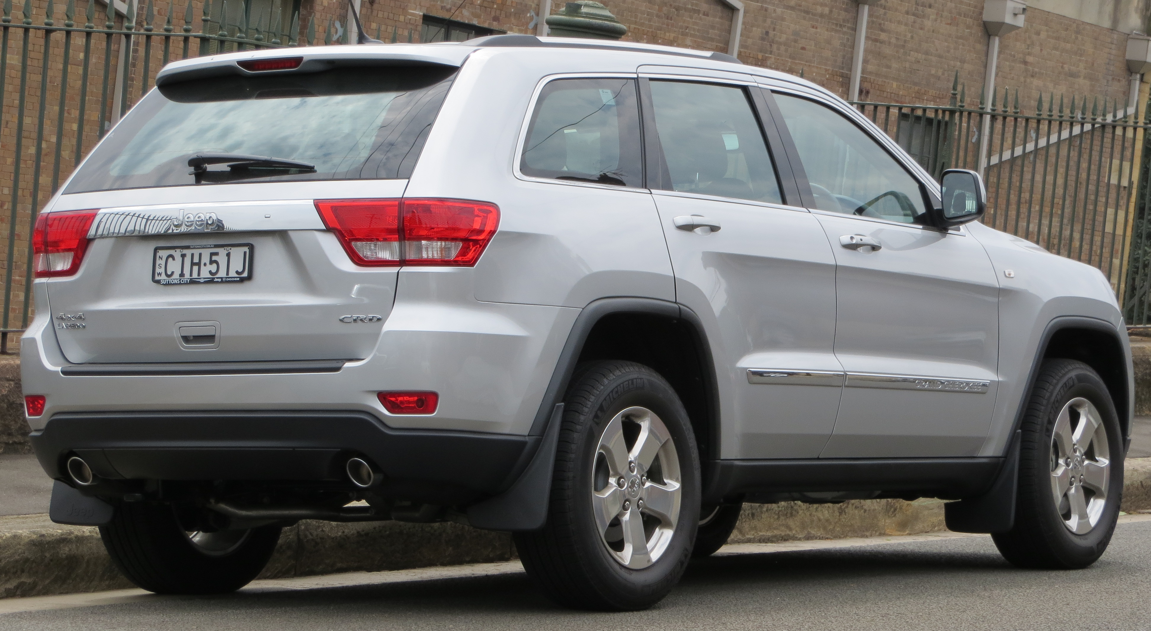 2012 Jeep Grand Cherokee (WK2 MY12) Laredo CRD 4WD wagon. Photographed in Millers Point, New South Wales, Australia.